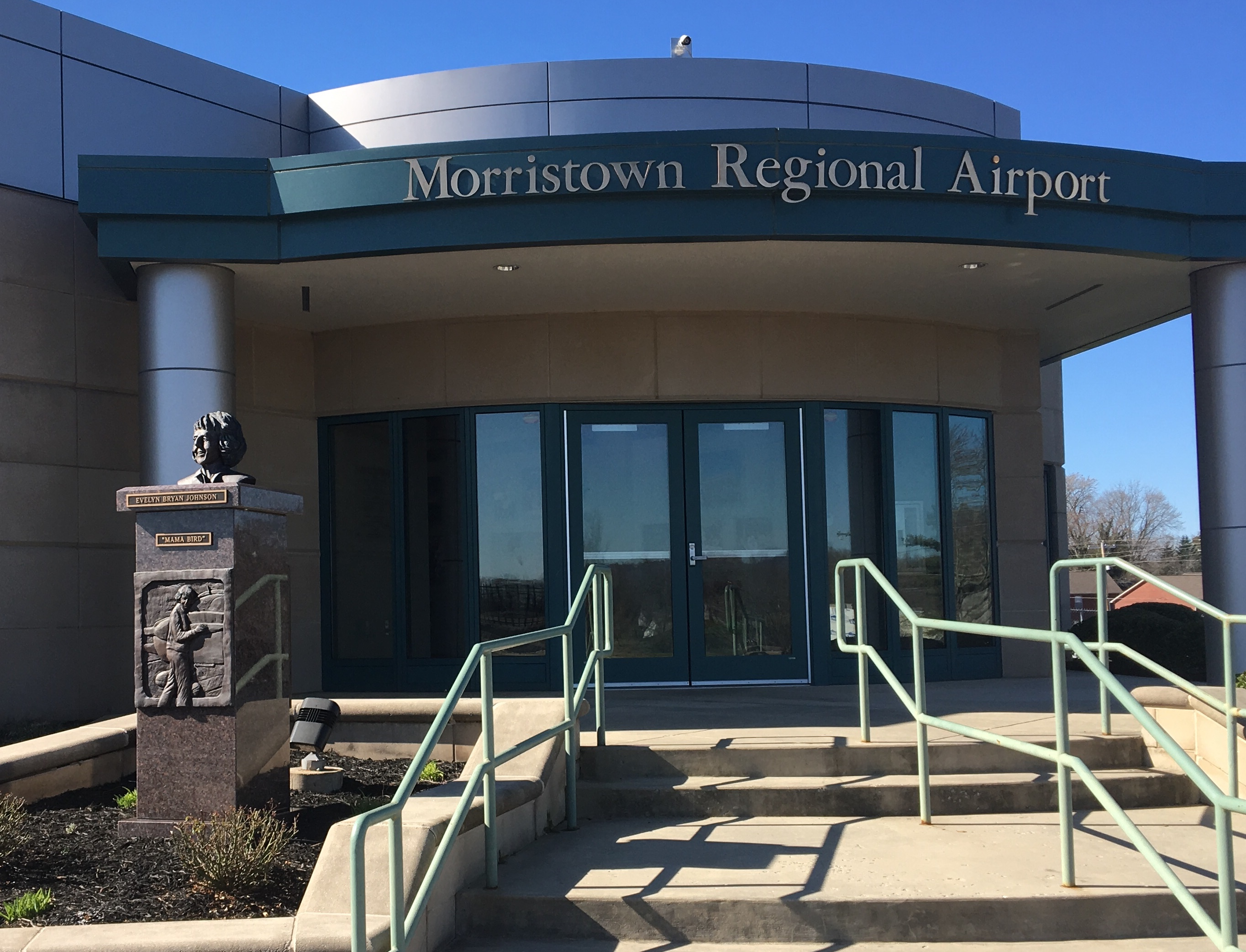 The Evelyn Bryan Johnson Terminal at Morristown Regional Airport in Morristown, Tennessee in February 2020.